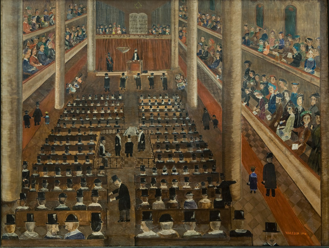 "Our Synagogue" painting by Lette Valeska, 1940. Synagogue congregation in Braunschweig, Germany.